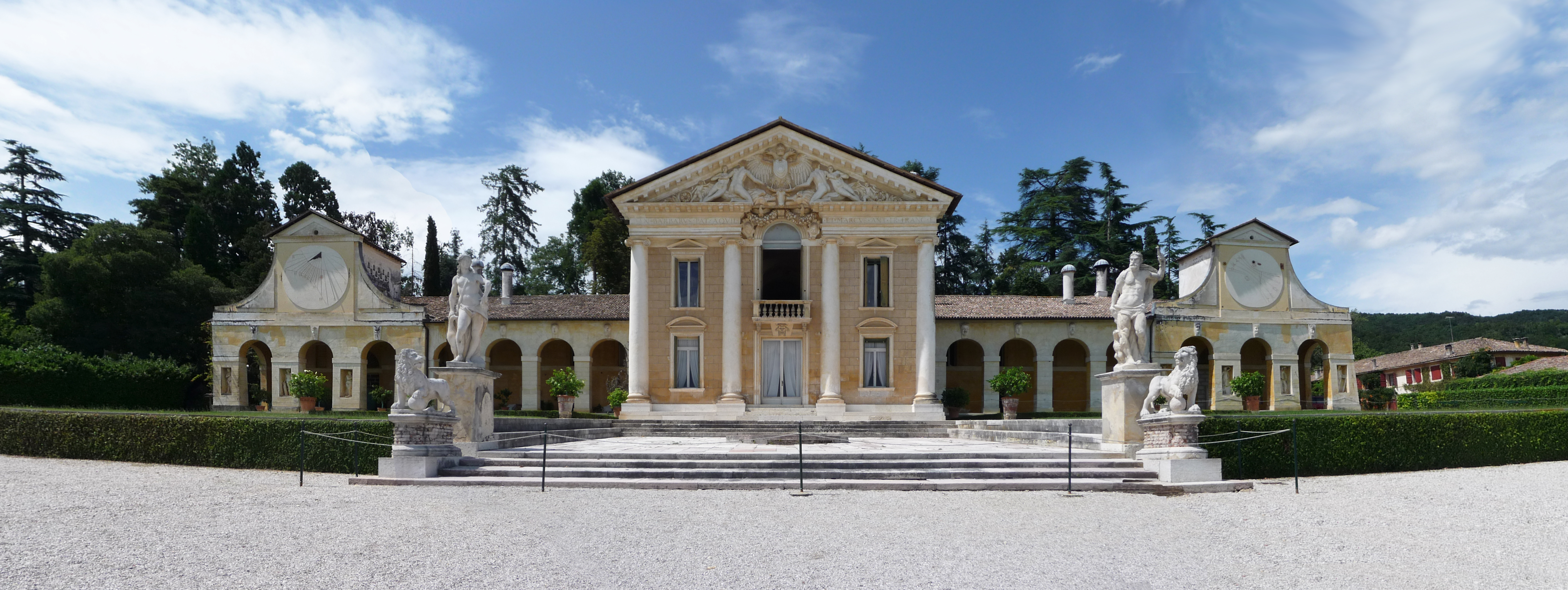 Front of Villa Barbaro in Maser, province of Treviso, Italy, built between 1554 and 1560 for the brothers Daniele and Marcantonio Barbaro